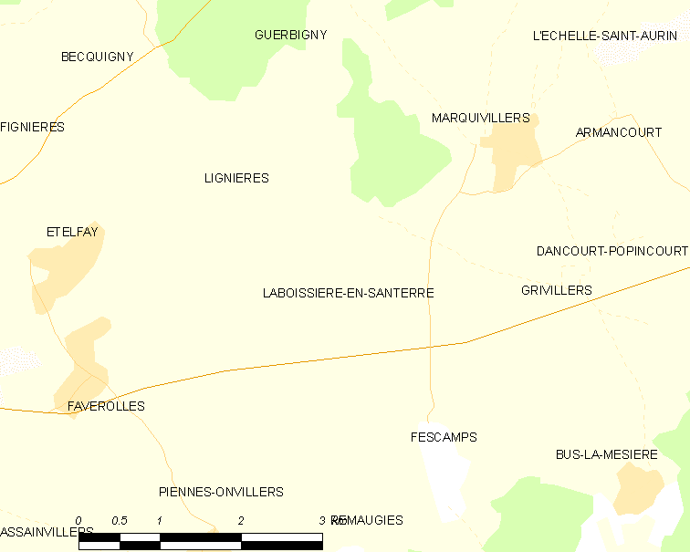 Map of French municipality Laboissière-en-Santerre